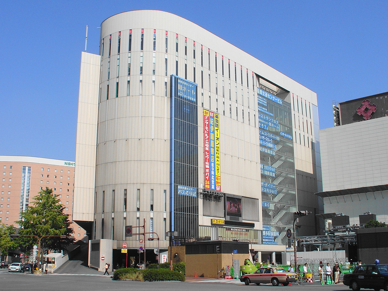 Hakata Station Transportation Center.(Hakata Ward, Fukuoka City, Fukuoka Prefecture, Japan)